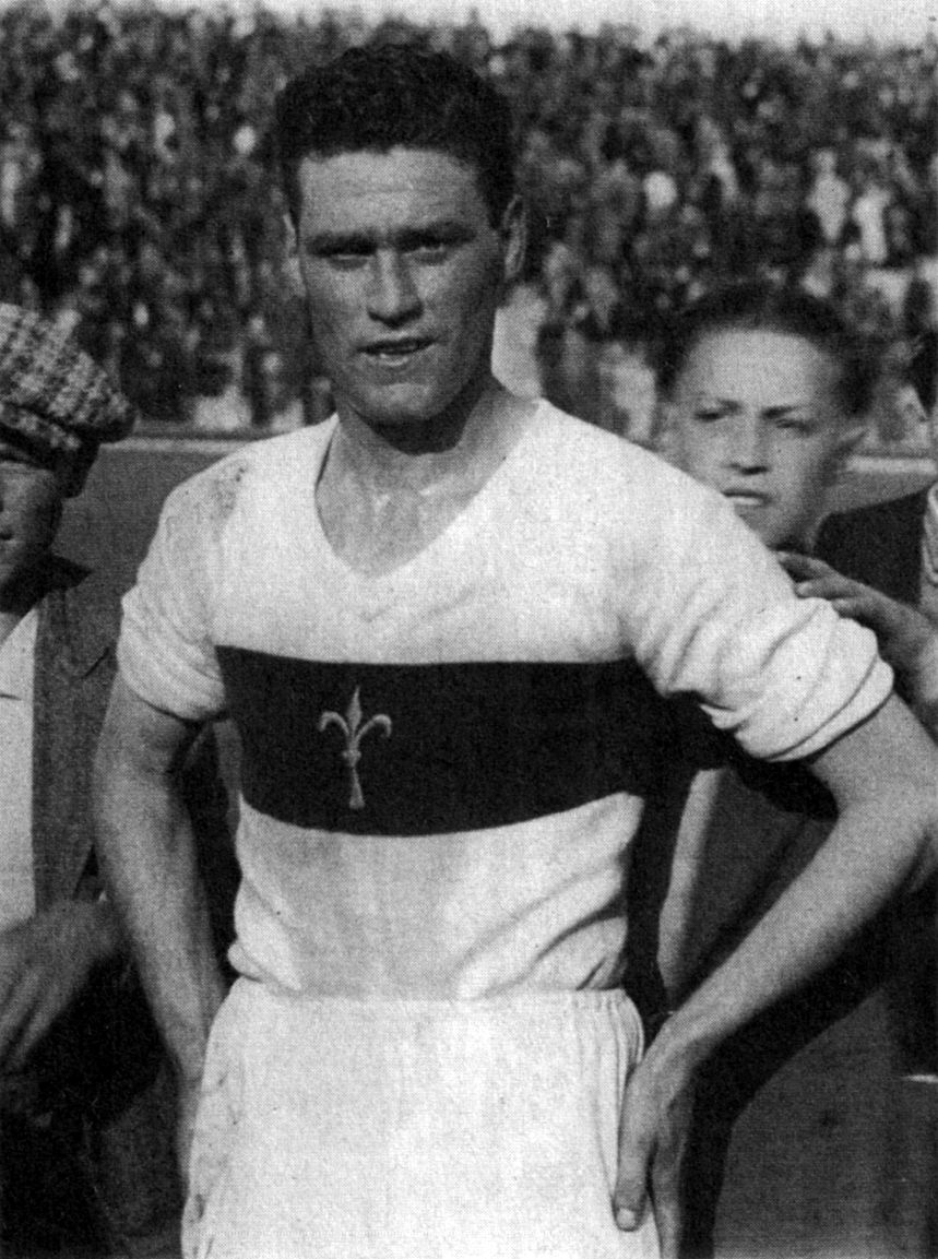 Italian footballer Nereo Rocco with U.S. Triestina in the 1930s.